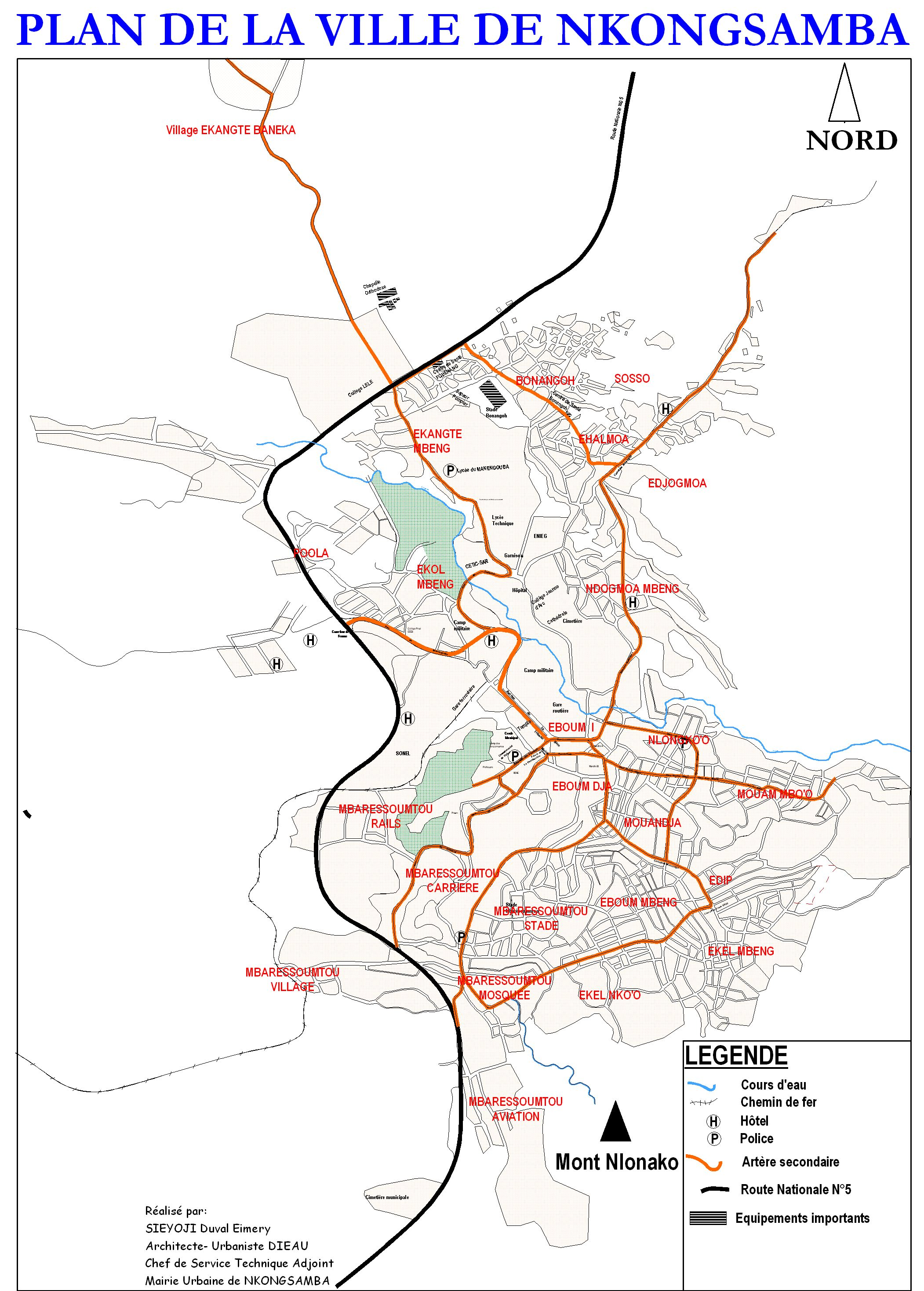 Nkongsamba Map